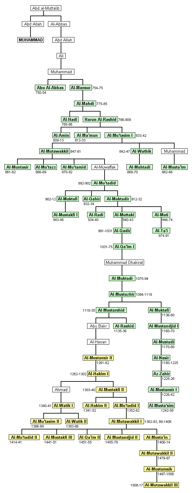 Genealogic tree of the abbasid family (caliphs of Bagdad and Cairo).